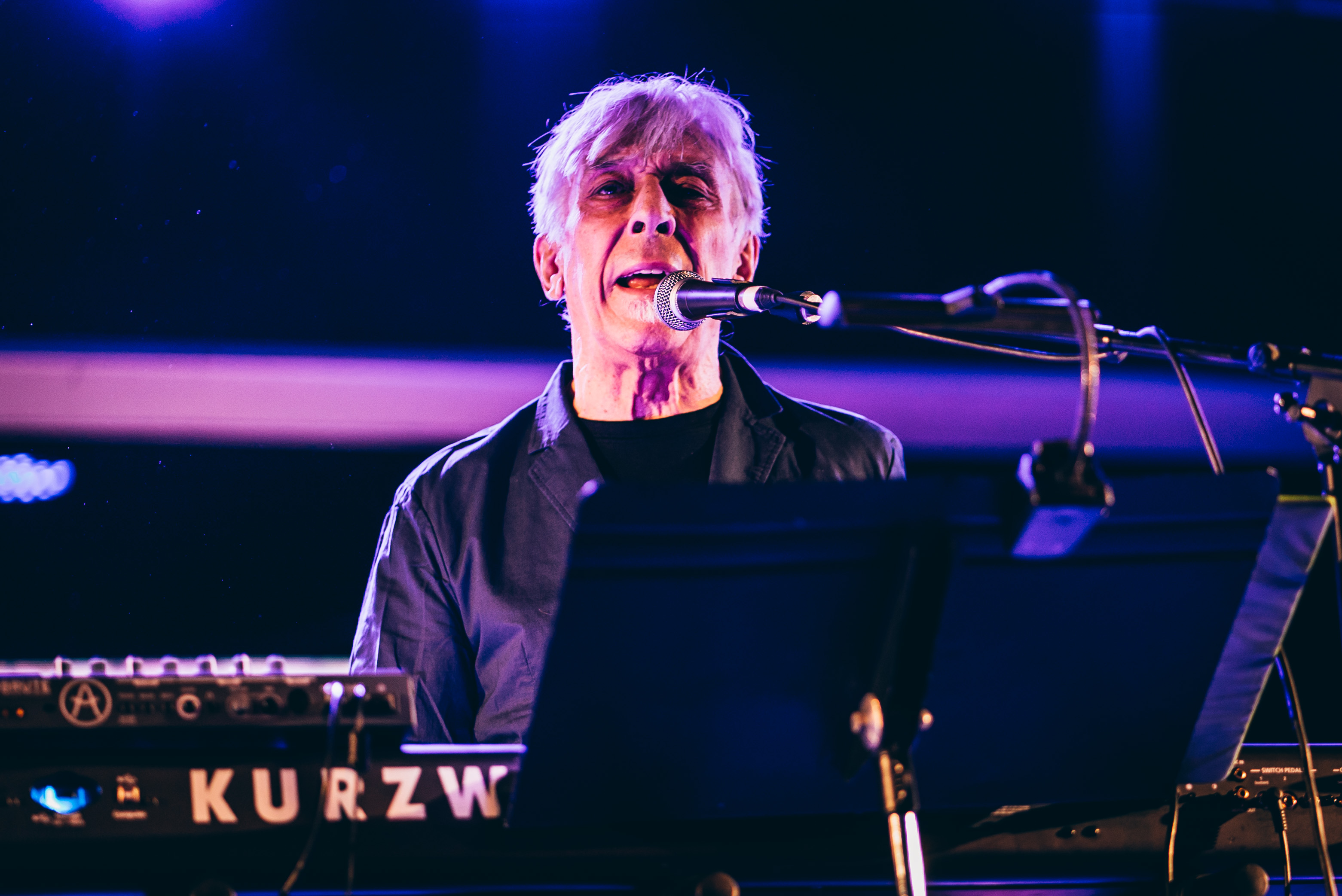 John Cale